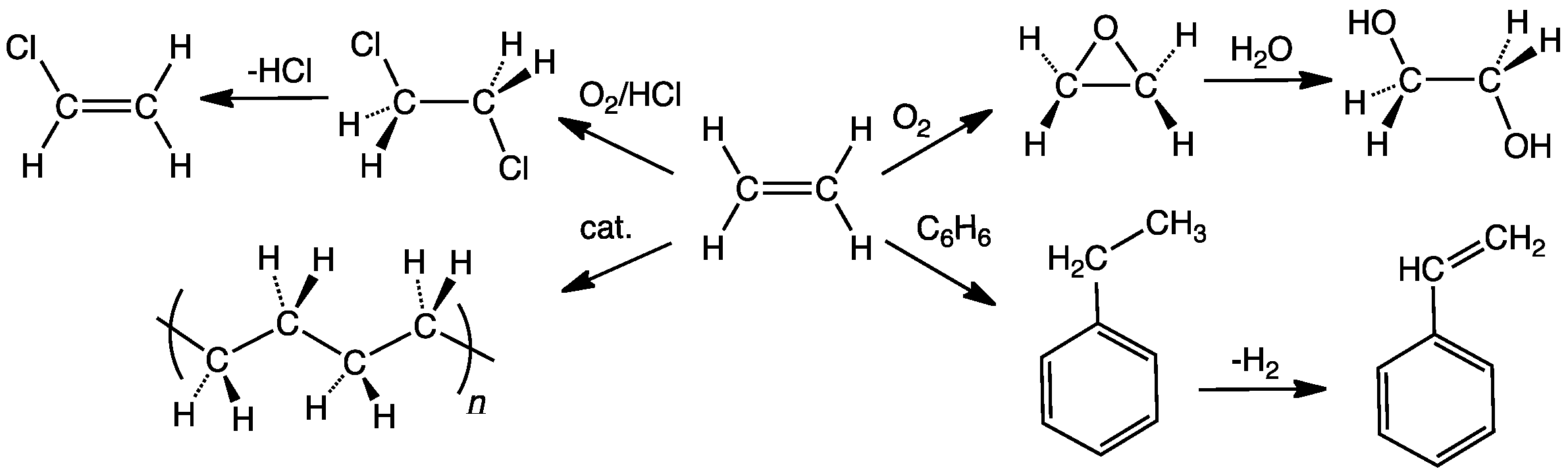 Main products from ethylene